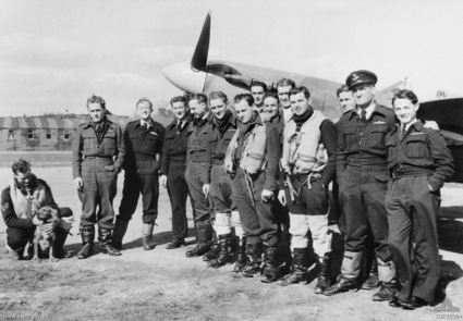 Australian War Memorial image SUK15004. Group photo of No. 457 Squadron's pilots at RAF Station Redhill in 1942